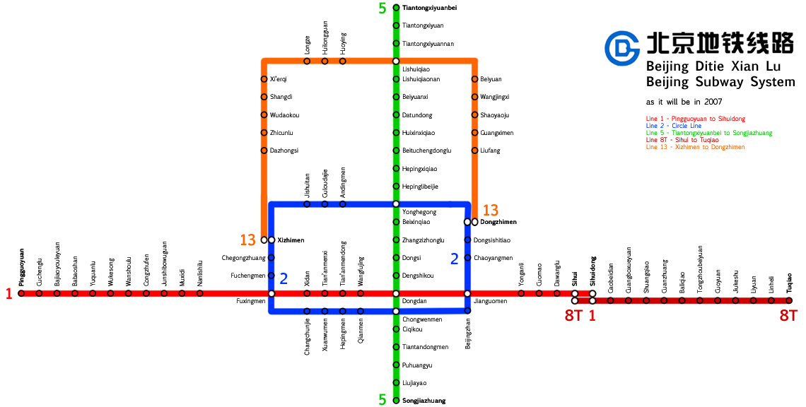 Map of the Beijing Subway as it will be in summer 2007.